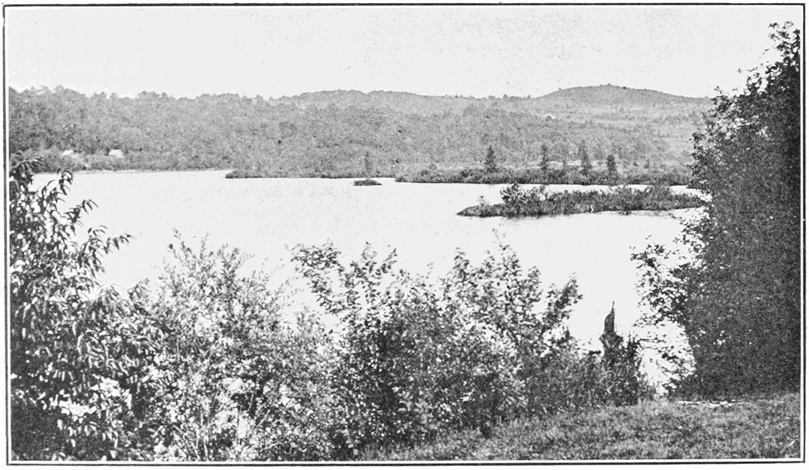 Series of floating islands on Sadawga Lake Whitingham Vermont